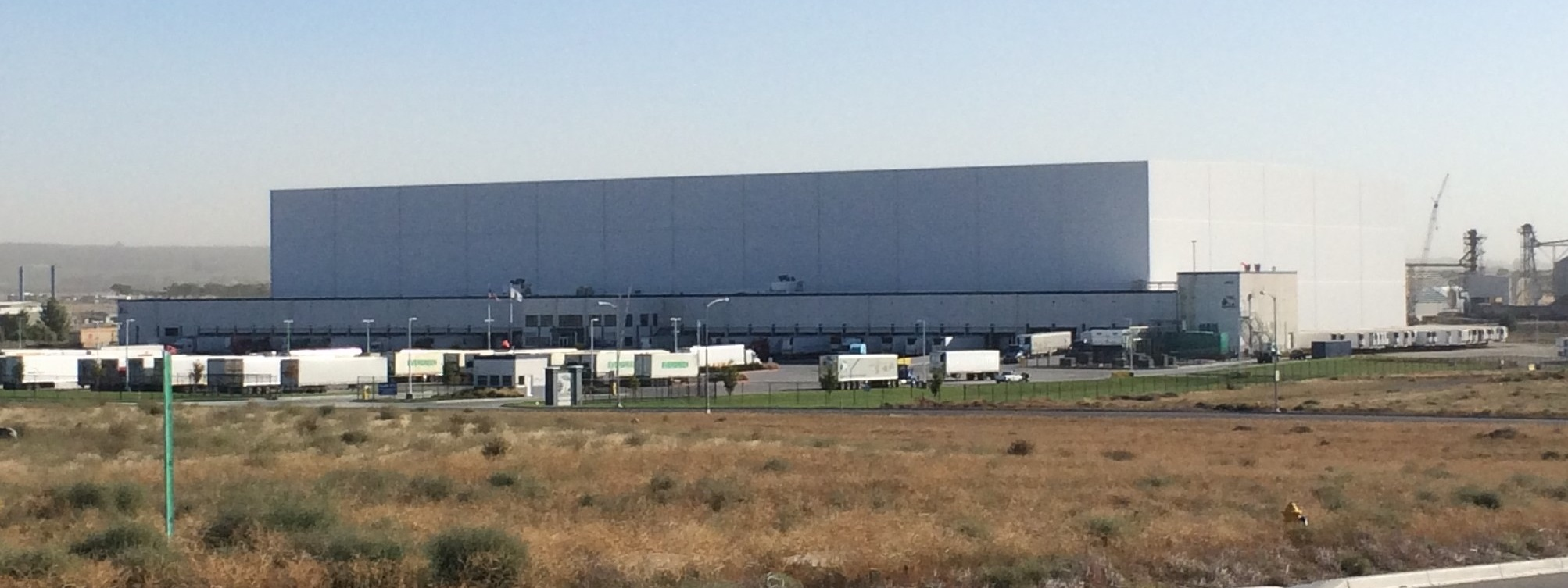 Giant cold-storage facility in Richland, Washington, USA